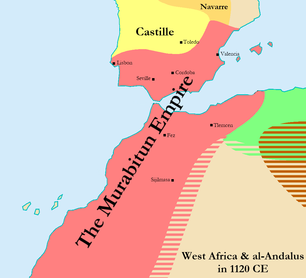 A map of the Murabitun (Almoravid) Empire in 1120 in North Africa and al-Andalus.